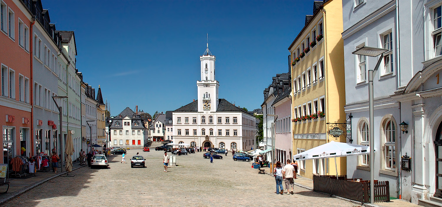 This image shows the market place with the townhall in Schneeberg (Saxony, Germany).